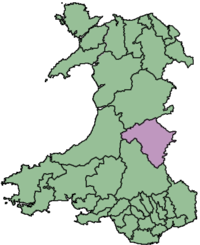 Radnor Area of Search